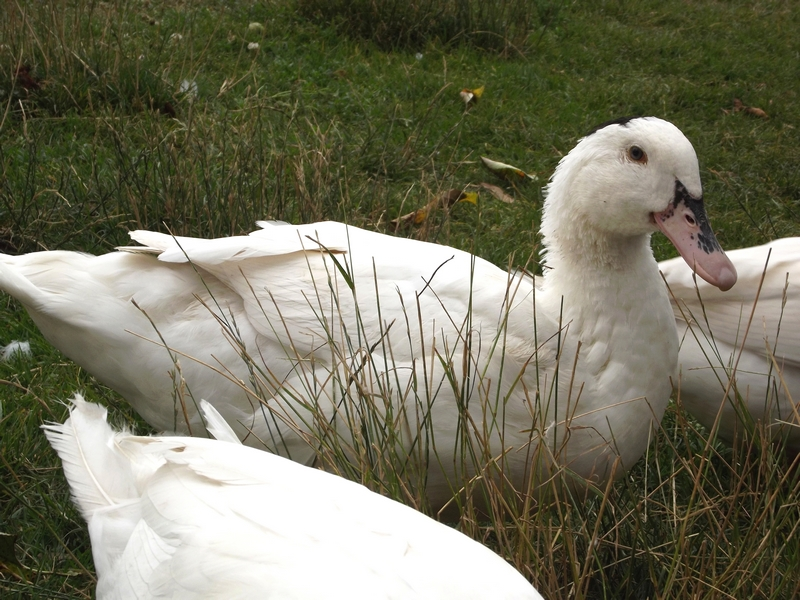 Mulard